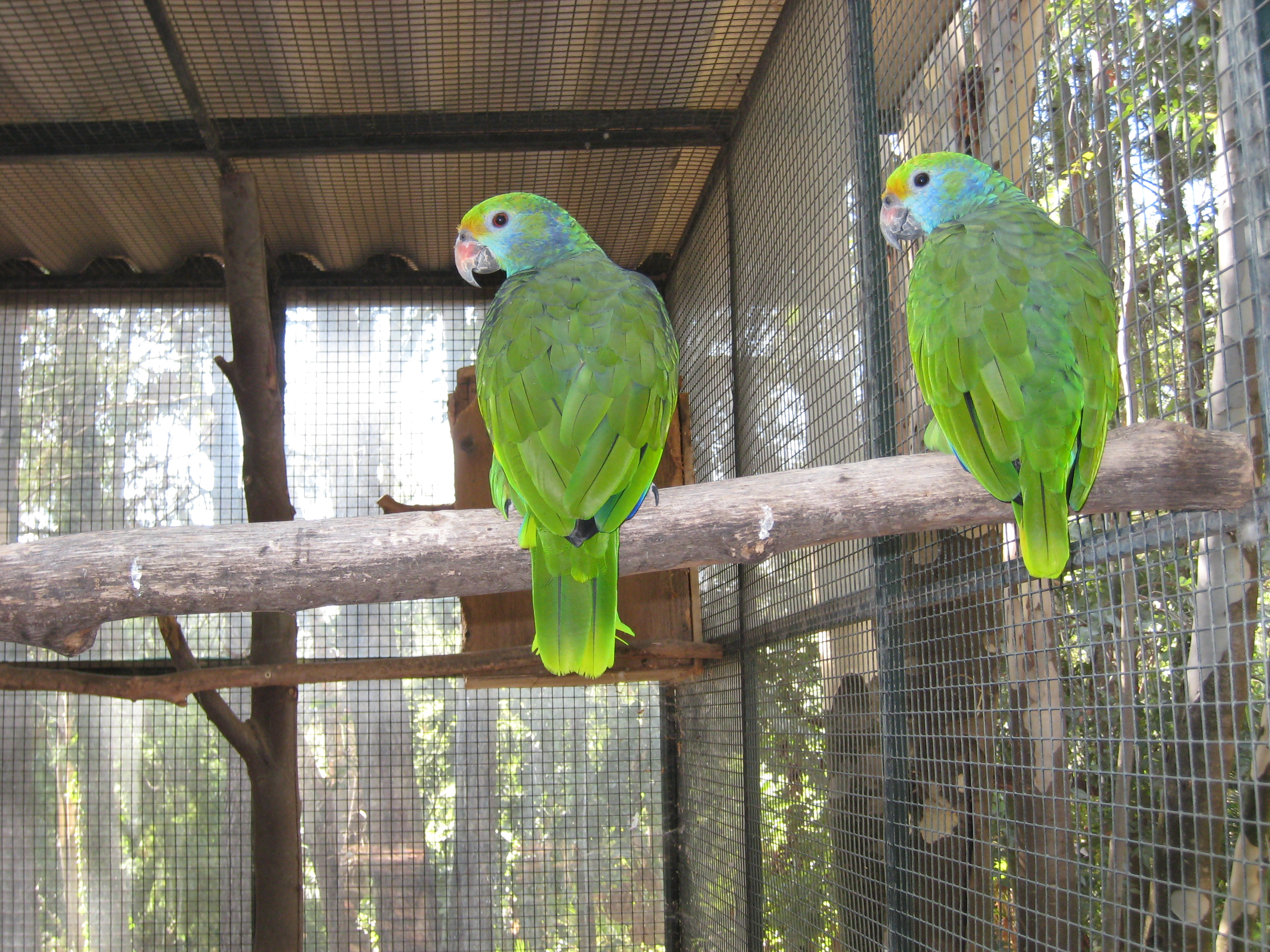 Amazona dufresniana in jardin d'oiseaux tropicaux